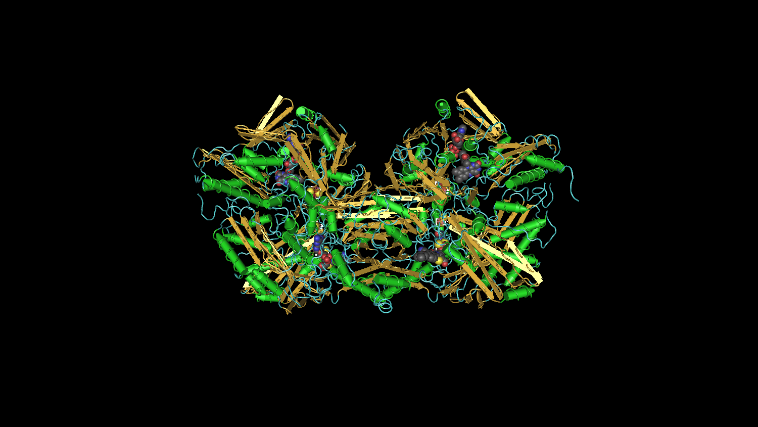 XO enzyme inhibited by febuxostat